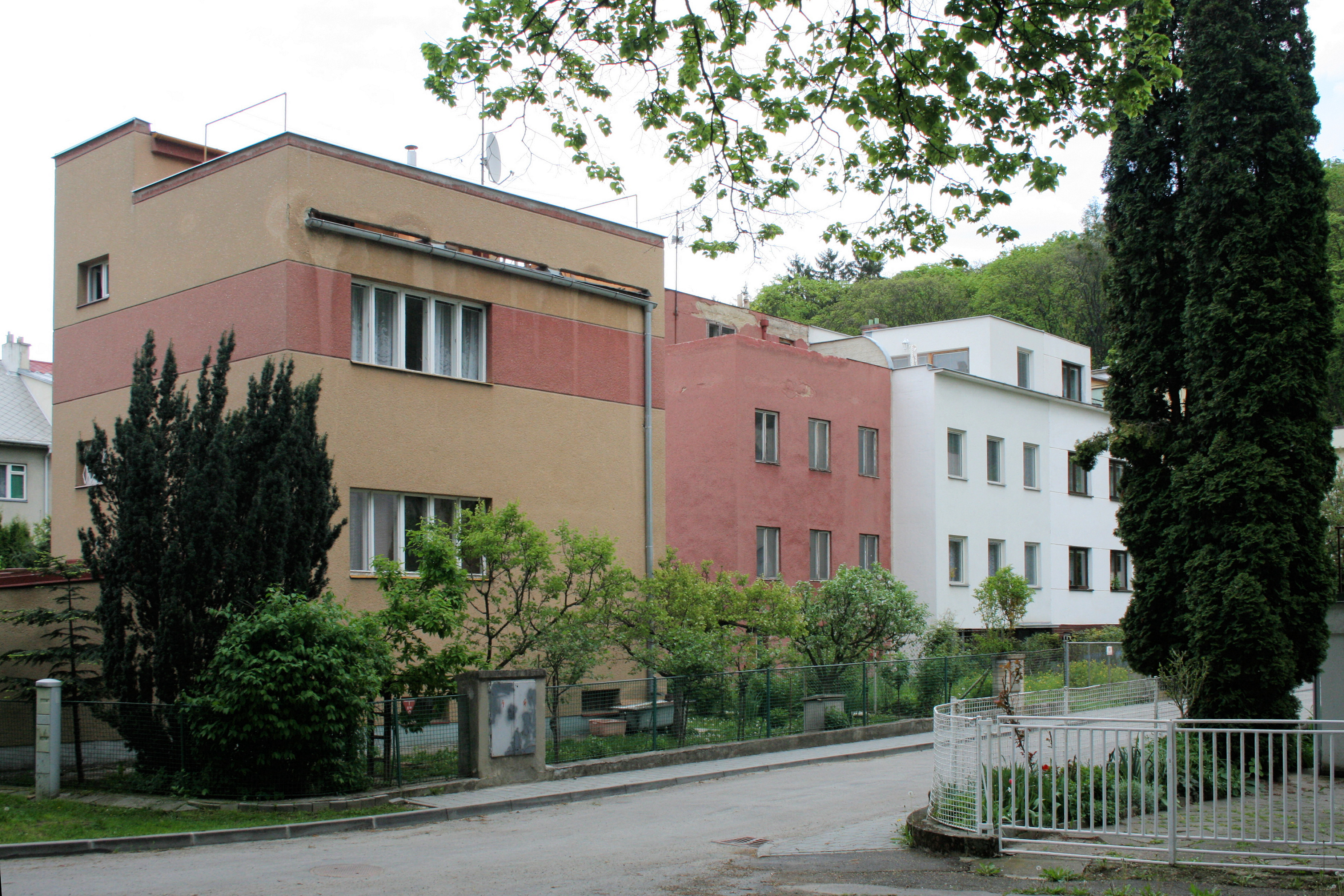 "Nový dům" (New House) settlement - 16 functionalist houses built in 1928 on occasion of an annual exhibition of contemporary culture, Brno, Czech Republic. Česky: Kolonie Nový dům - obytný komplex 16 funkcionalistických rodinných domků zbudovaných v roce 1928 v rámci jubilejní výstavy soudobé kultury. Domy v ulici Drnovická zleva od architektů (zleva): Jaroslav Syřiště, Jan Víšek, Miroslav Putna a Hugo Foltýn. Pohled z ulice Bráfova. Brno-Žabovřesky.